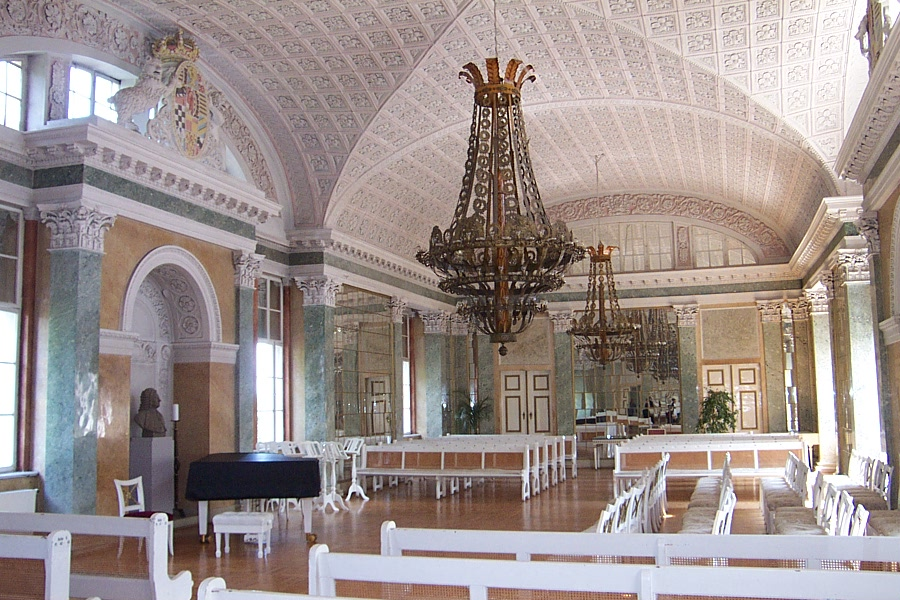 Bachsaal im Schloß Köthen, Johann Sebastian Bach, Bach concert hall at the castle at Koethen